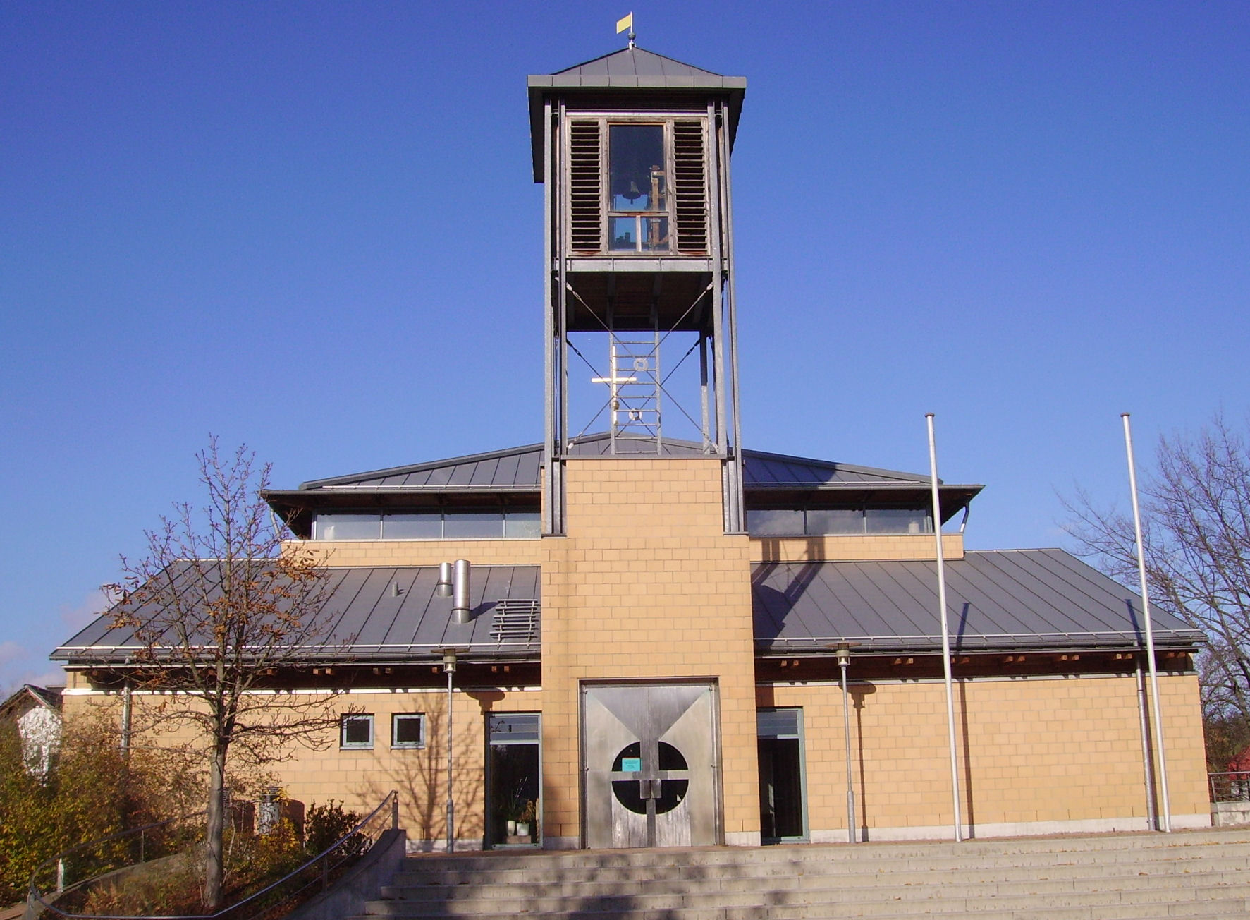 Catholic church in Birkenheide in Rhineland-Palatinate, Germany